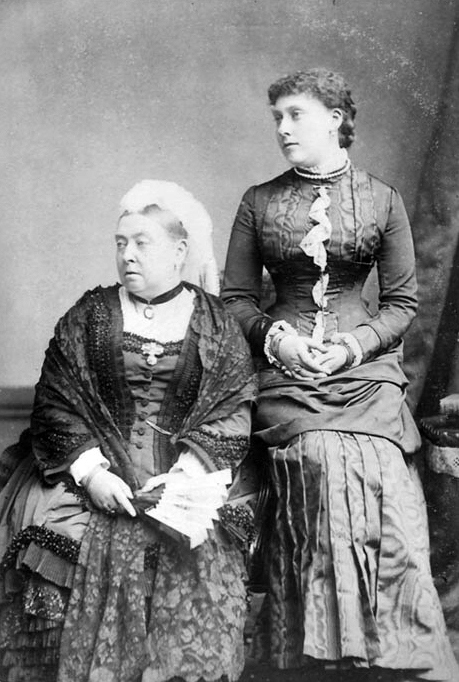 Queen Victoria and her daughter Princess Beatrice